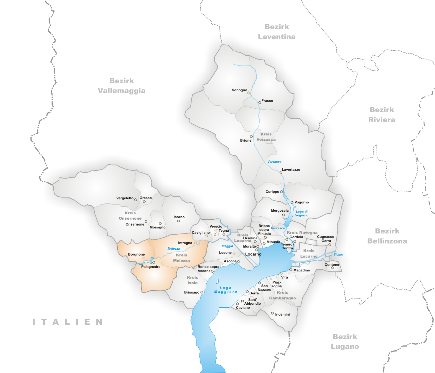 Municipalities of District Locarno until 2009 Artist: Tschubby